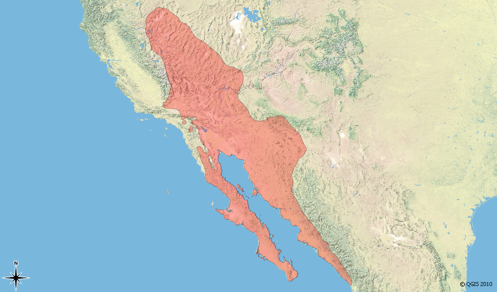 Range of Callisaurus draconoides - Zebra-tailed Lizard